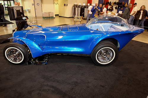 Side view of the restored "Orbitron" custom car, photograhed in Pomona, CA USA in January 2009